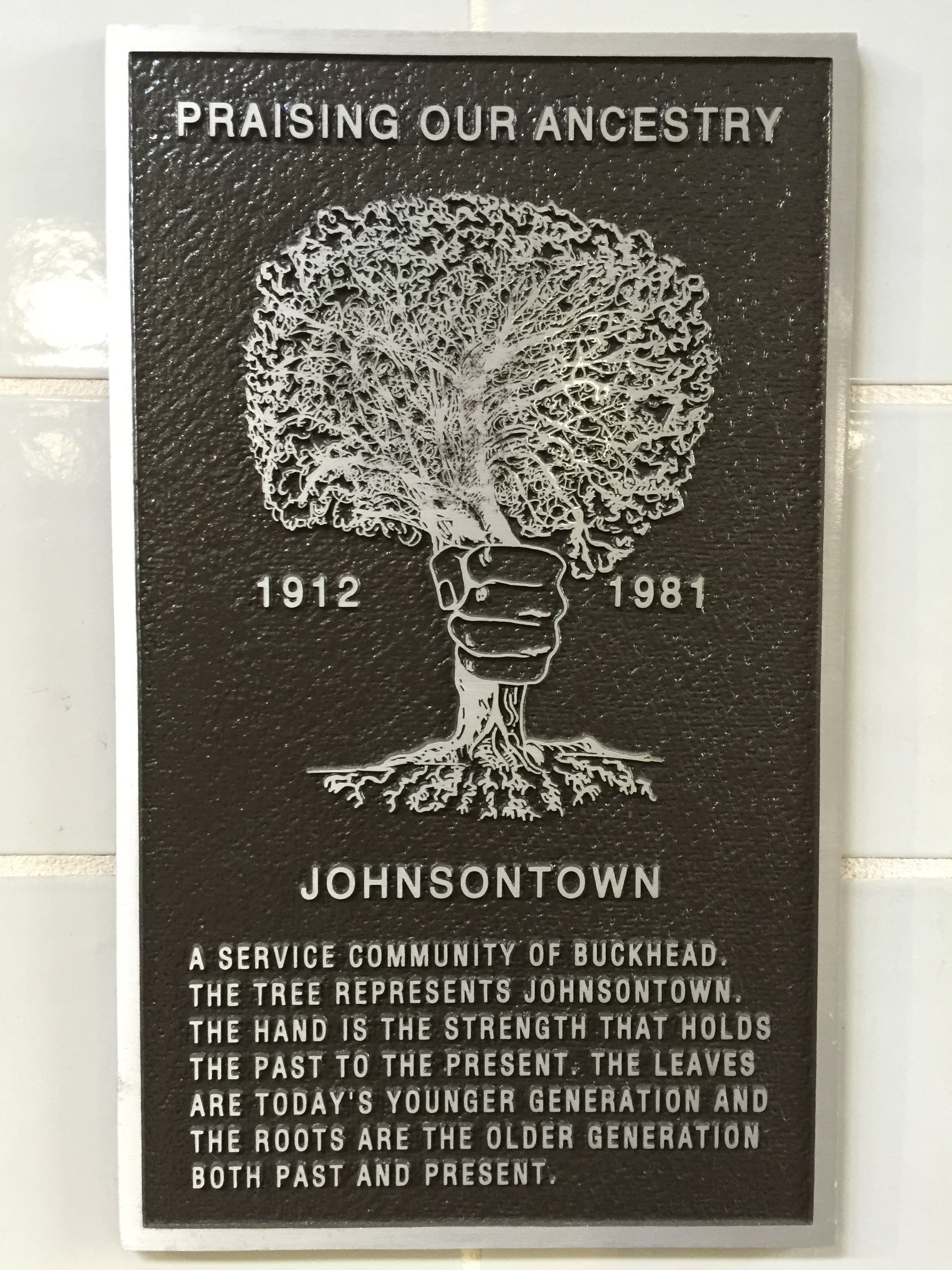 This plaque is in the Lenox MARTA station and commemorates the Johnsontown community.